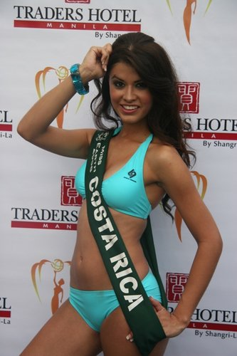 Wendy Cordero - Miss Earth 2008 - Press Presentation